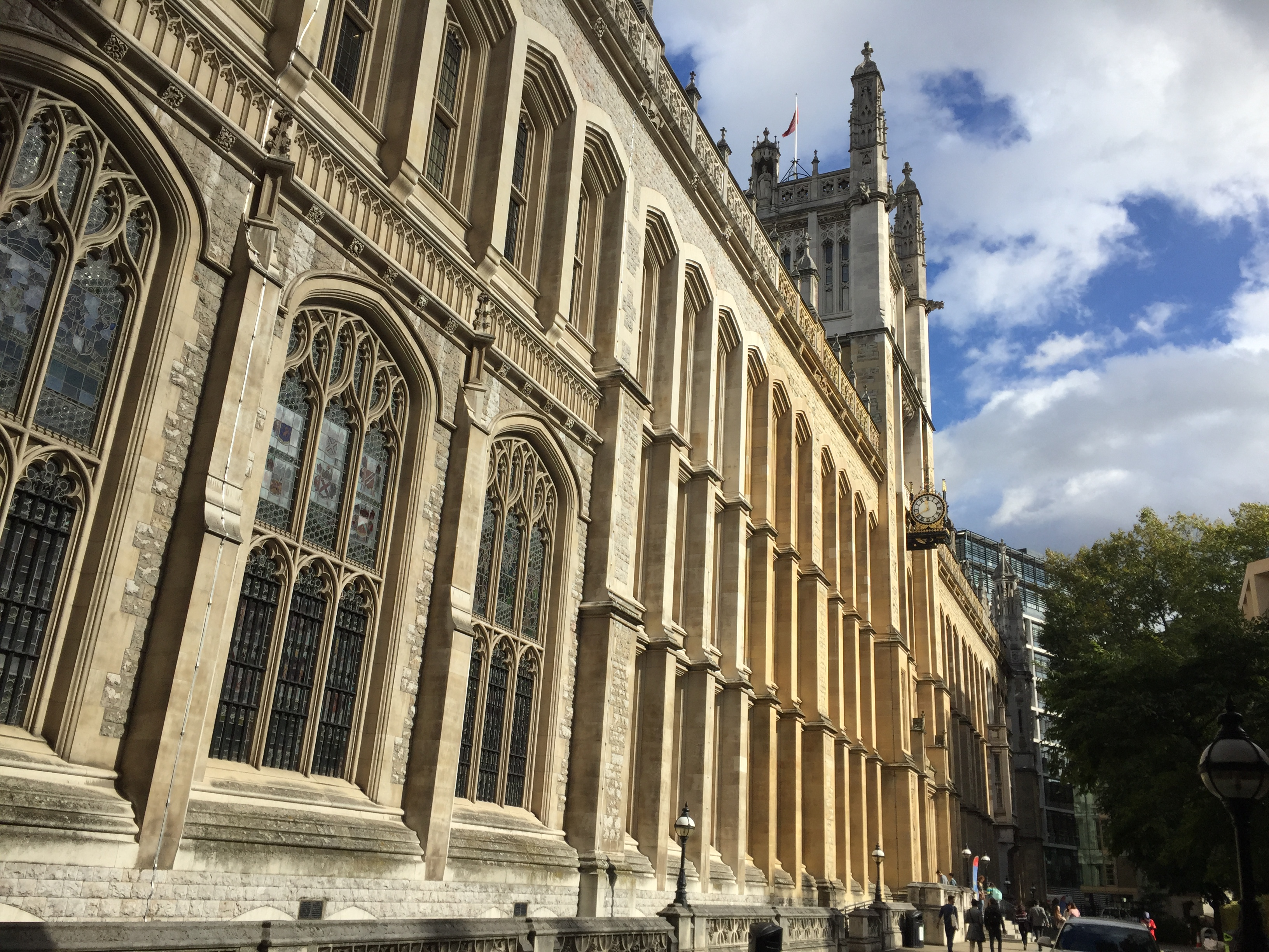 Maughan Library, King's College London on a sunny day.